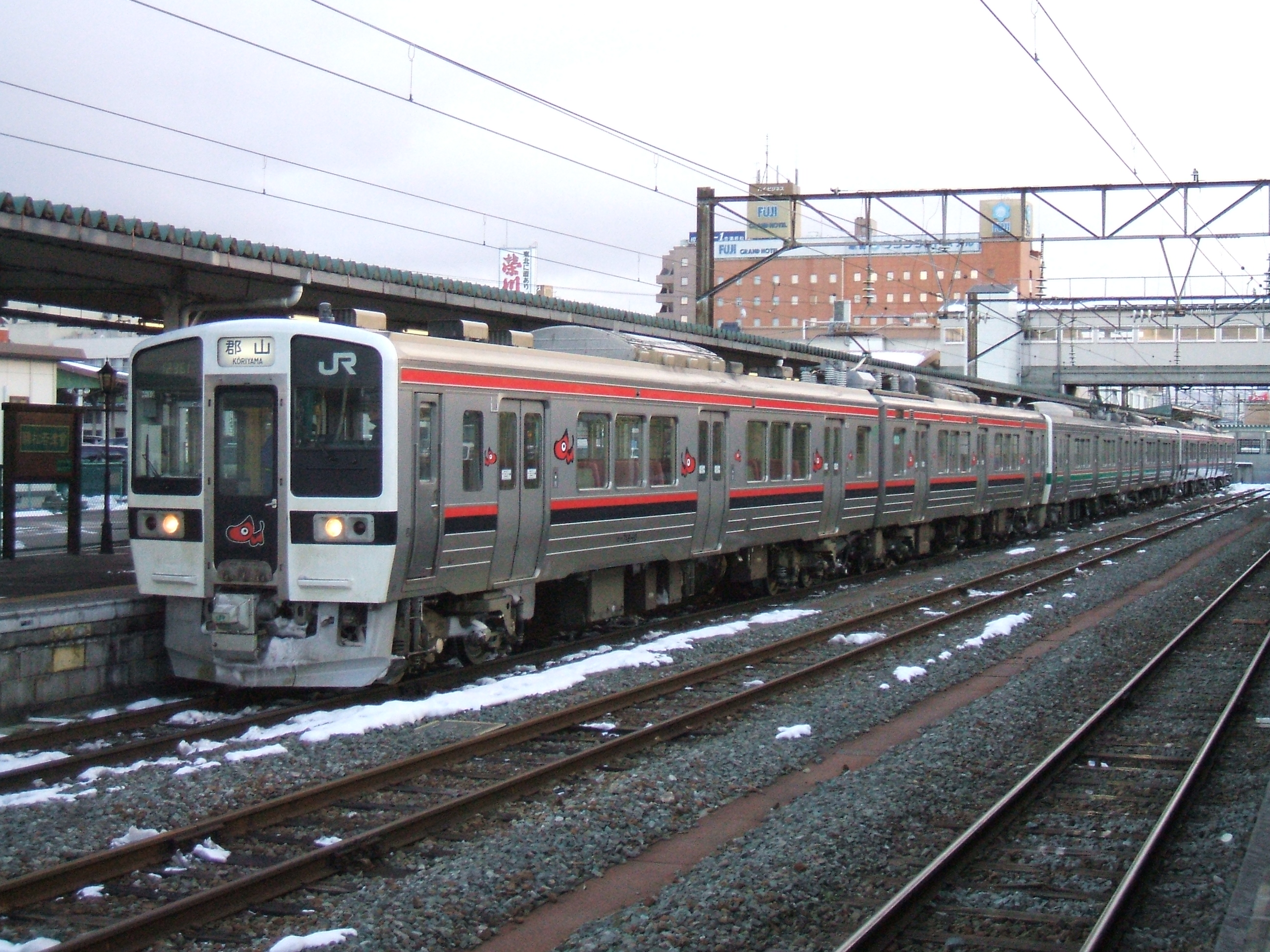 JR East 719 series EMU at Aizu-Wakamatsu Station